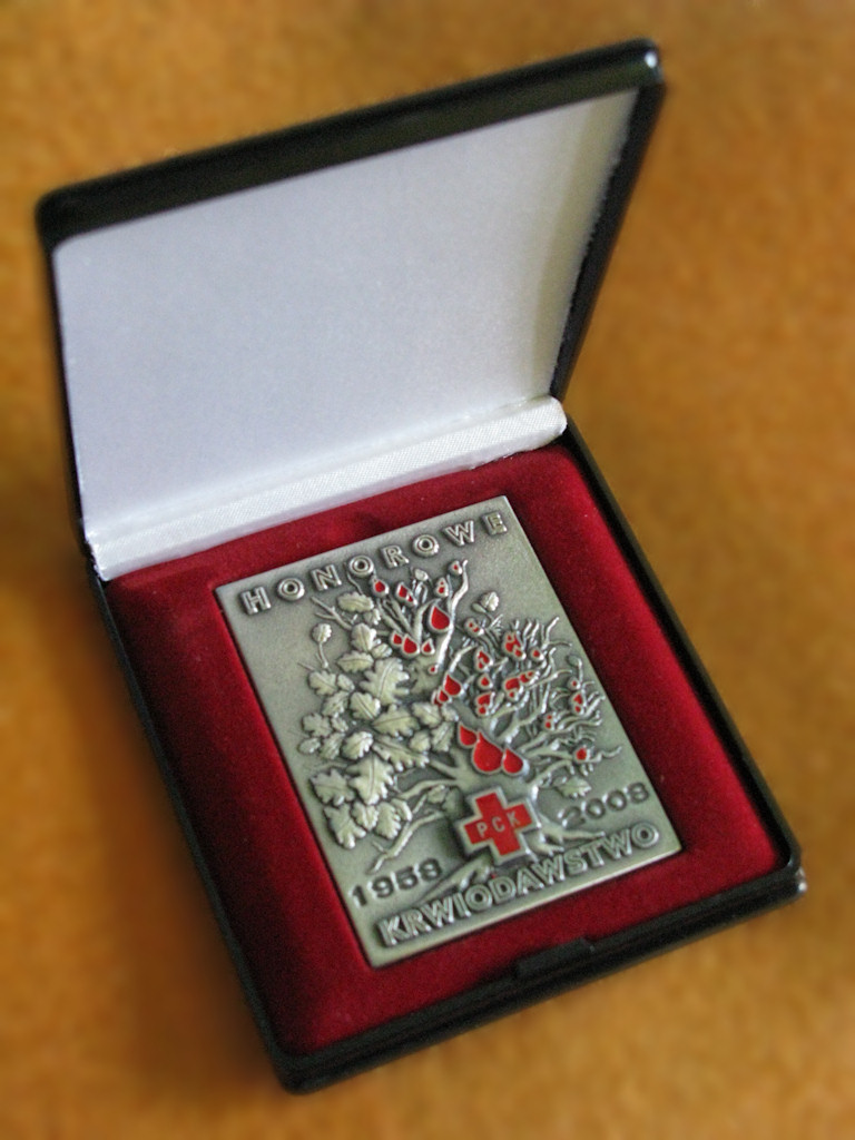 The medal of Polish Red Cross "Honorary Blood Donation 1958-2008"